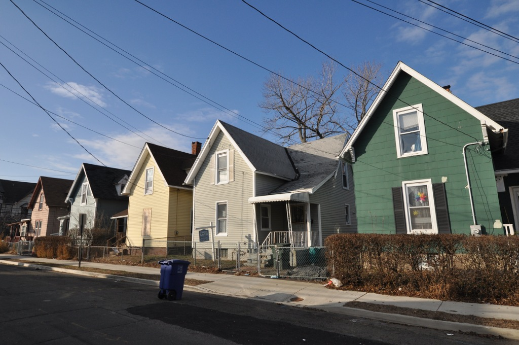 A row of cottages on Cottage Place, Bridgeport, Connecticut. Part of the William D. Bishop Cottage Development Historic District.